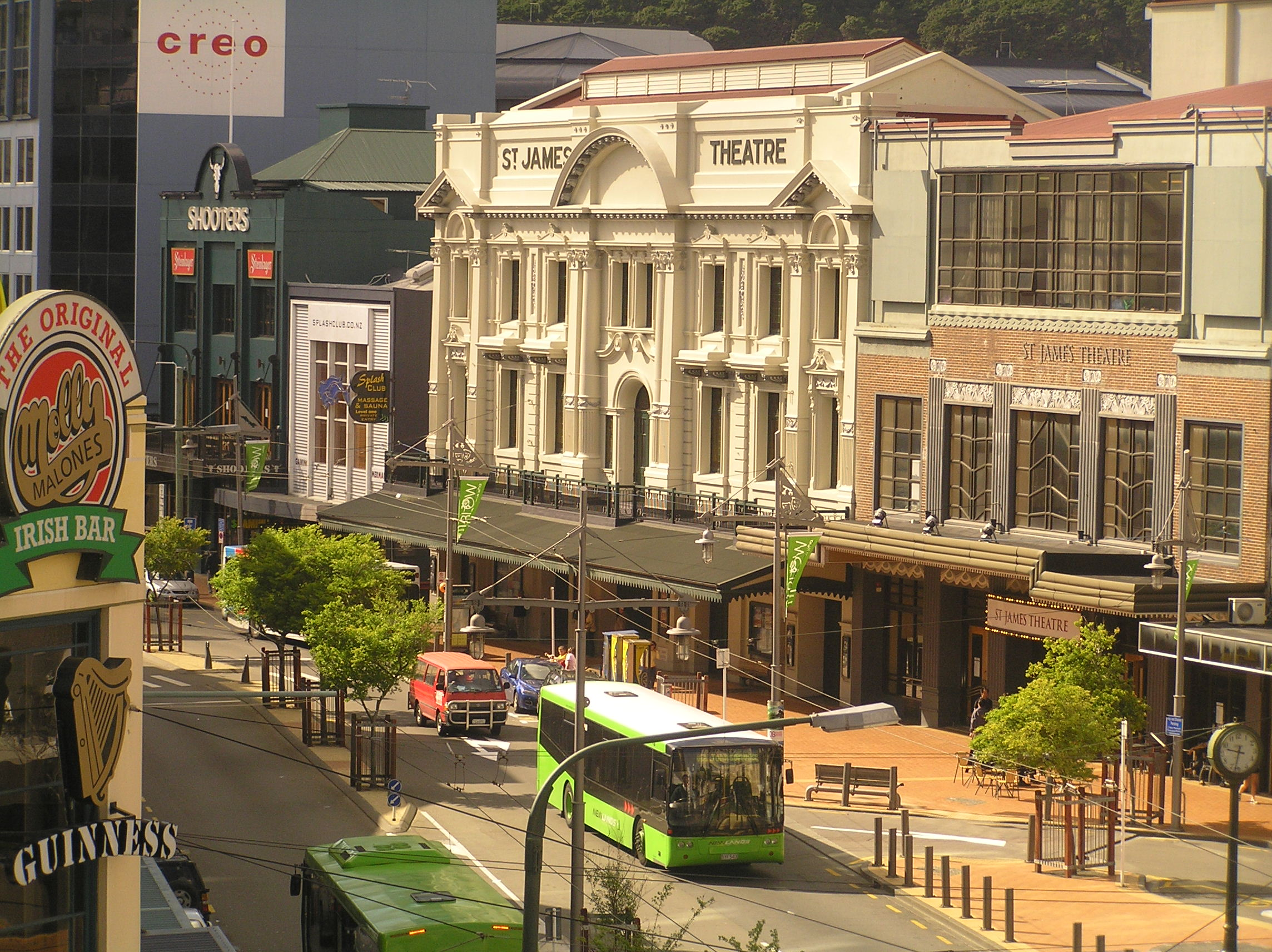 St James Theatre Courtenay Place, Wellington, New Zealand. Shot taken from the third floor of NEC House (corner Taranaki Street and Courtenay Place.